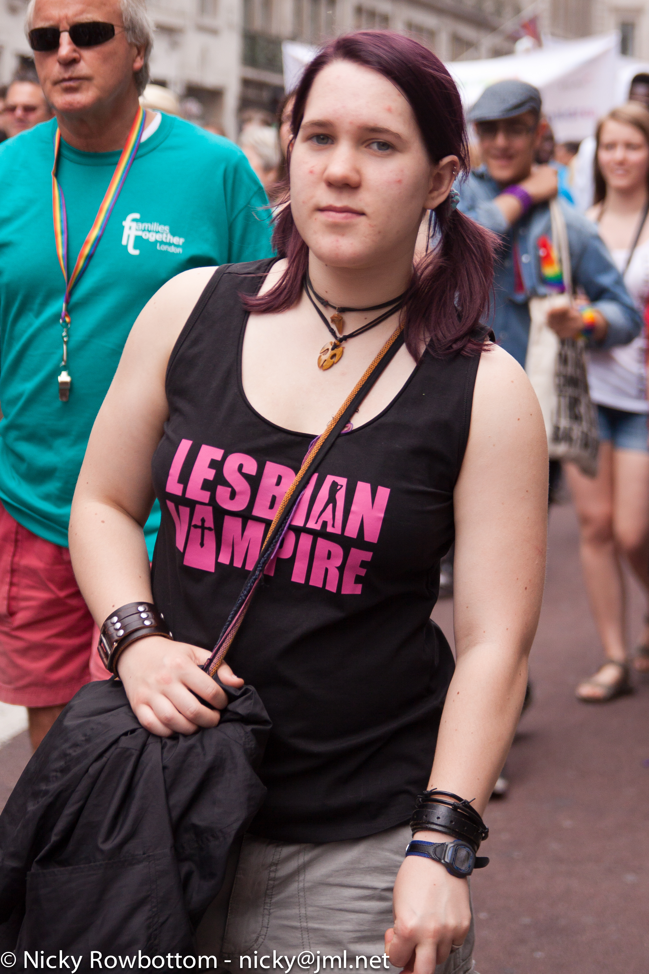 Lesbian Vampire